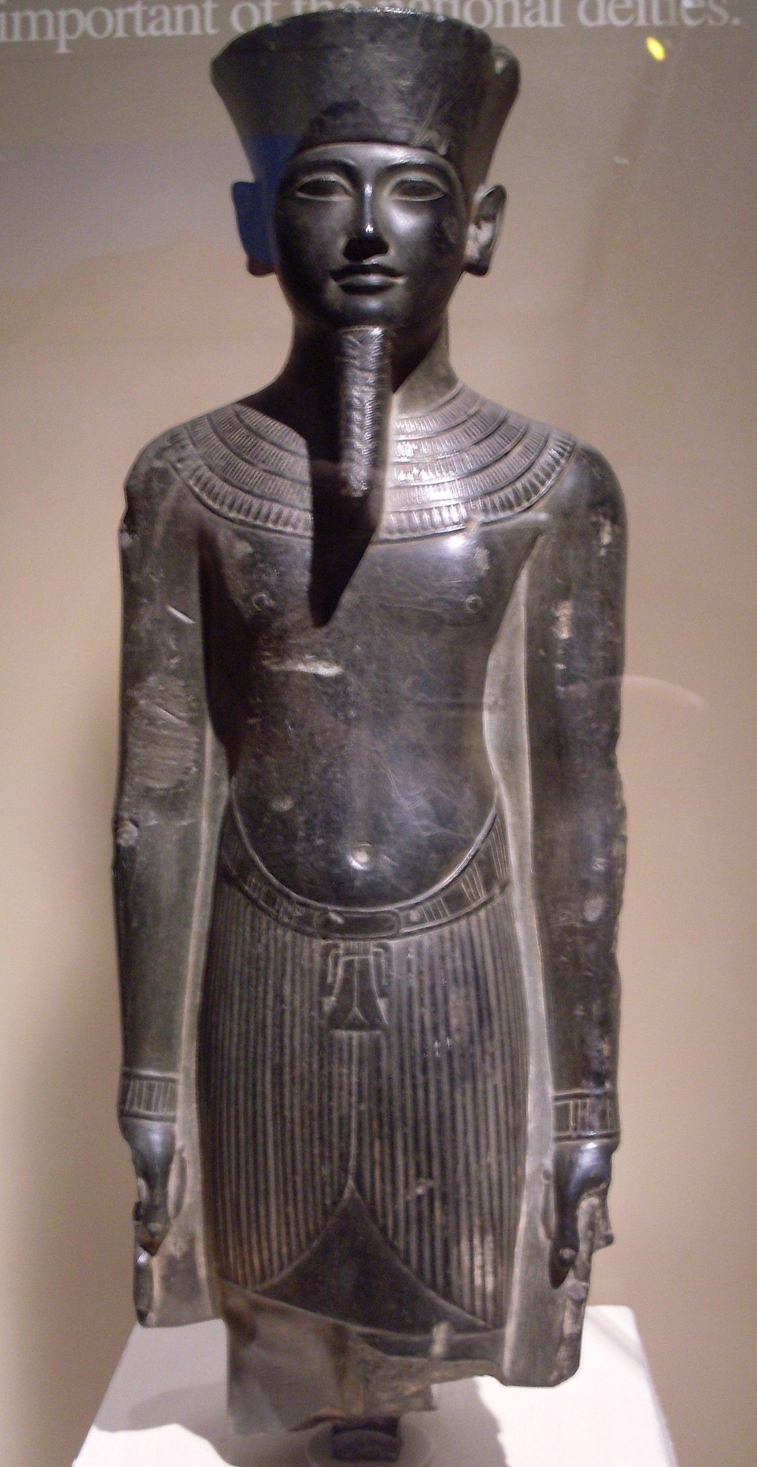 Statue of Amun. Thebes, c 2000 B.C. Exhibit of University of Pennsylvania Museum of Archeology and Anthropology. Amun was earlier regarded as the creator god, but later in the history of ancient Egypt, he was adopted as the state god and protector of the Egyptian capital city of Thebes after Memphis first decline of Memphis. Amun-Ra, a variant concept of this deity was later venerated as the sun god. Apart from the usual human figure, representations of this deity also takes the form of animals such as the ram, the snake and the goose.